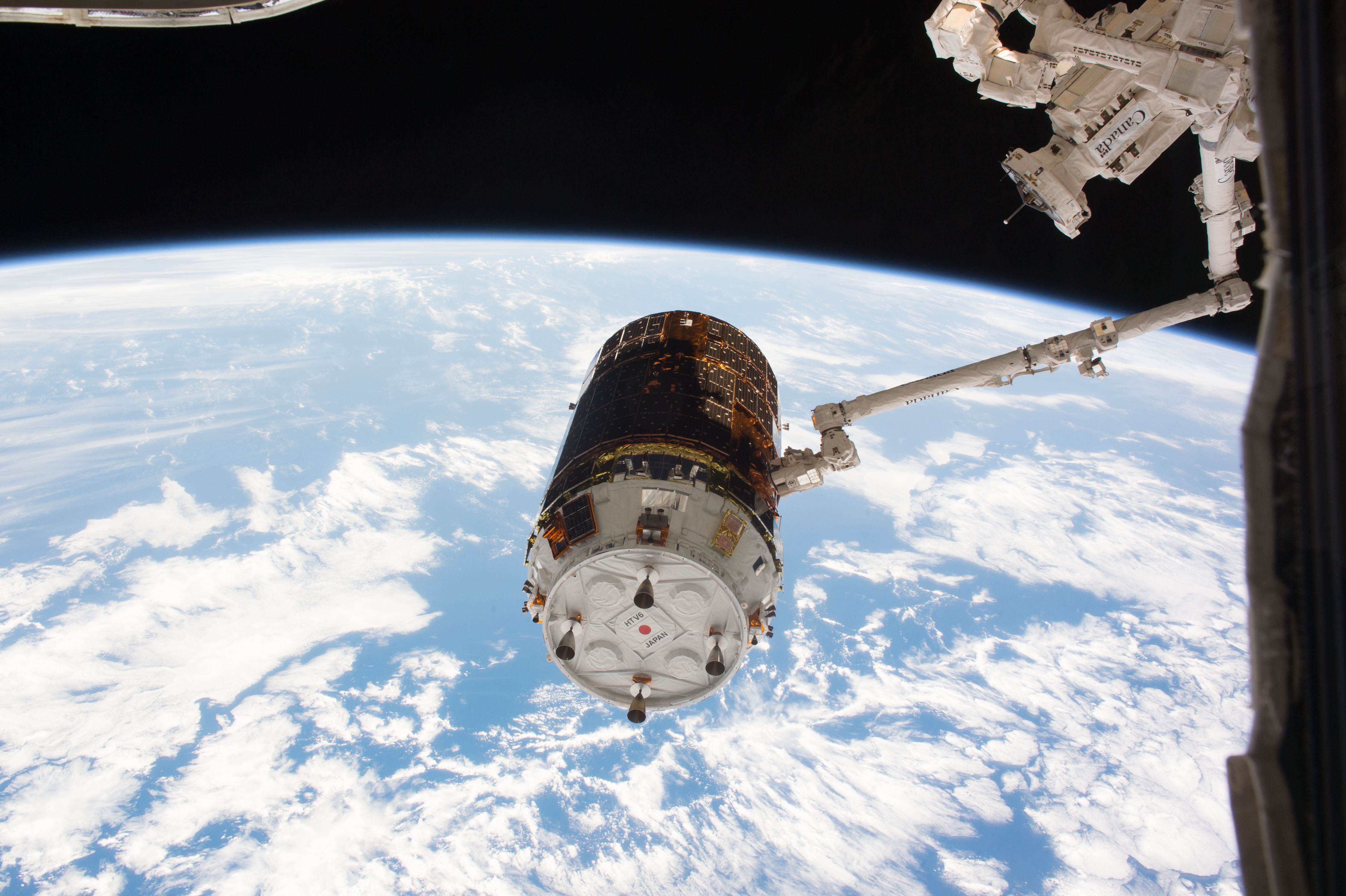 The Japanese HTV-6 cargo vehicle is seen grappled by the International Space Station's robotic arm after arrival. HTV-6 launched from the Tanegashima Space Center in southern Japan on Friday, Dec. 9 and arrived at the space station on Tuesday, Dec. 13. The vehicle was loaded with more than 4.5 tons of supplies, water, spare parts and experiment hardware for the six-person station crew, including six new lithium-ion batteries and adapter plates that will replace the nickel-hydrogen batteries currently used on the station to store electrical energy generated by the station’s solar arrays.